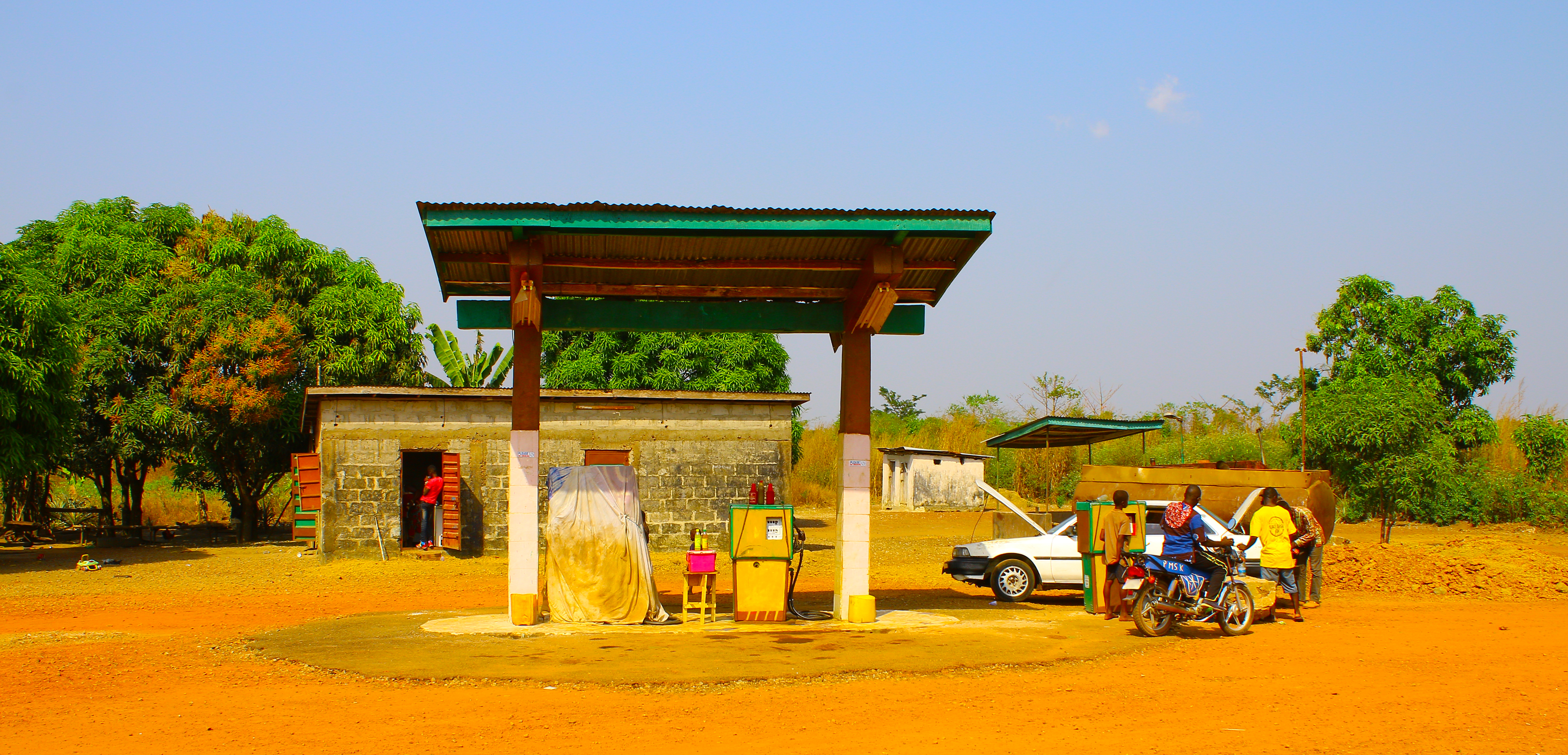 Fuel Station on Bo-Kenema Highway, Sierra Leone with manual machines (non electric) This is an image with the theme "Africa on the Move or Transport" from: Sierra Leone